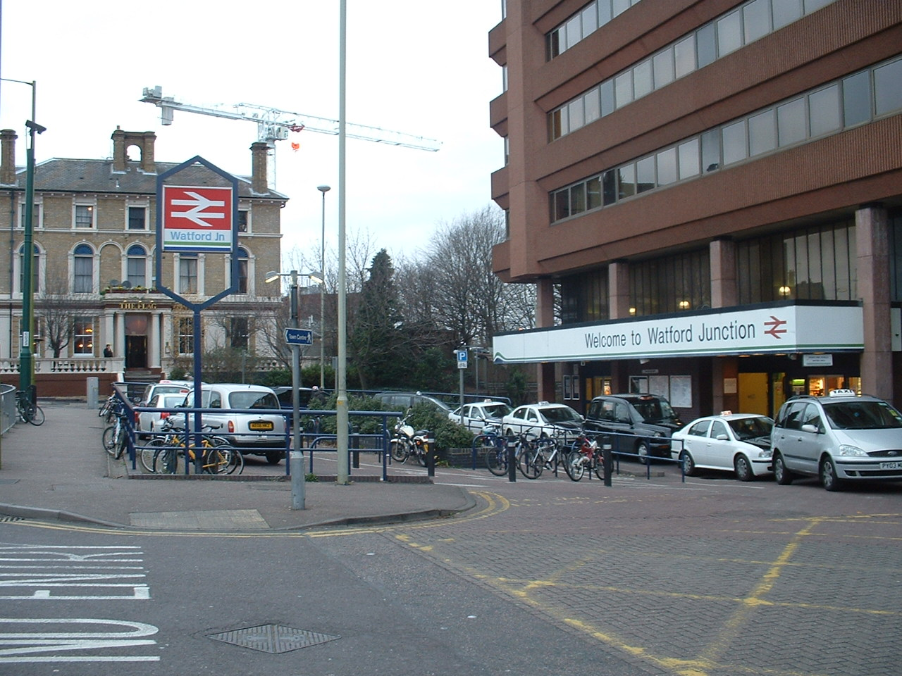 Watford Junction station entrance